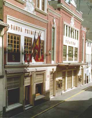 Theatre of Banda Primitiva of Llíria